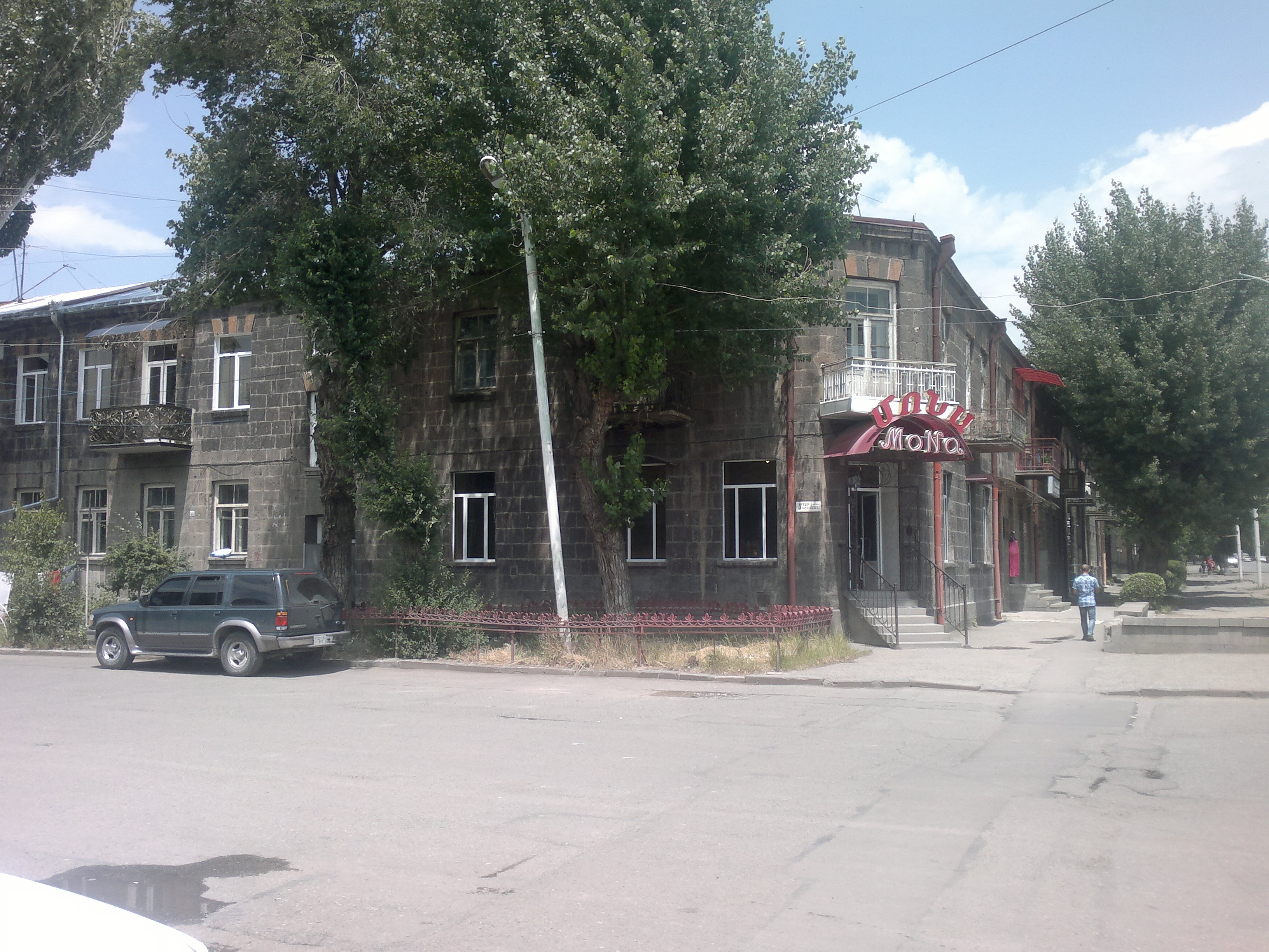 Building in Gyumri